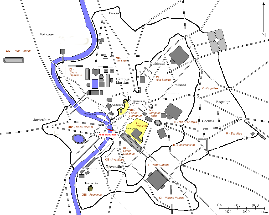 Pons Sublicius on a map of ancient Rome around 300 AD